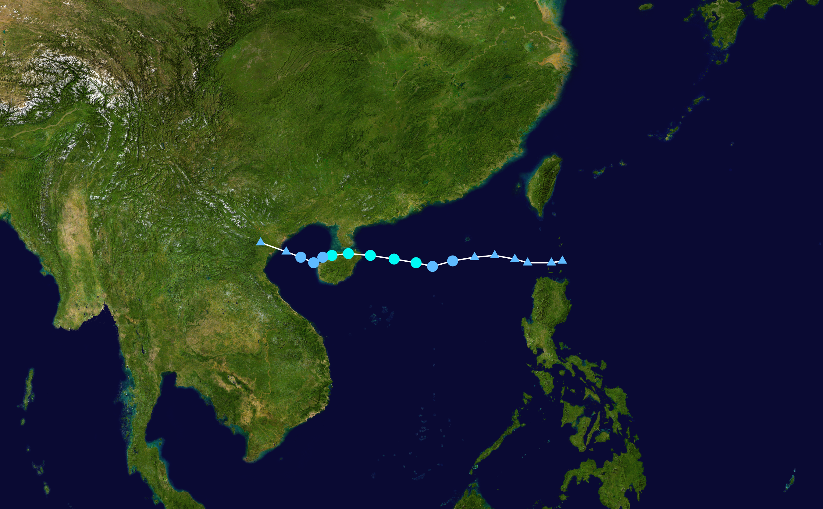 Track map of Tropical Storm Francisco of the 2007 Pacific typhoon season. The points show the location of the storm at 6-hour intervals. The colour represents the storm's maximum sustained wind speeds as classified in the Saffir–Simpson scale (see below), and the shape of the data points represent the nature of the storm, according to the legend below. Saffir–Simpson scale Tropical depression≤38 mph≤62 km/h Category 3111–129 mph178–208 km/h Tropical storm39–73 mph63–118 km/h Category 4130–156 mph209–251 km/h Category 174–95 mph119–153 km/h Category 5≥157 mph≥252 km/h Category 296–110 mph154–177 km/h Unknown Storm type Tropical cyclone Subtropical cyclone Extratropical cyclone / Remnant low / Tropical disturbance / Monsoon depression